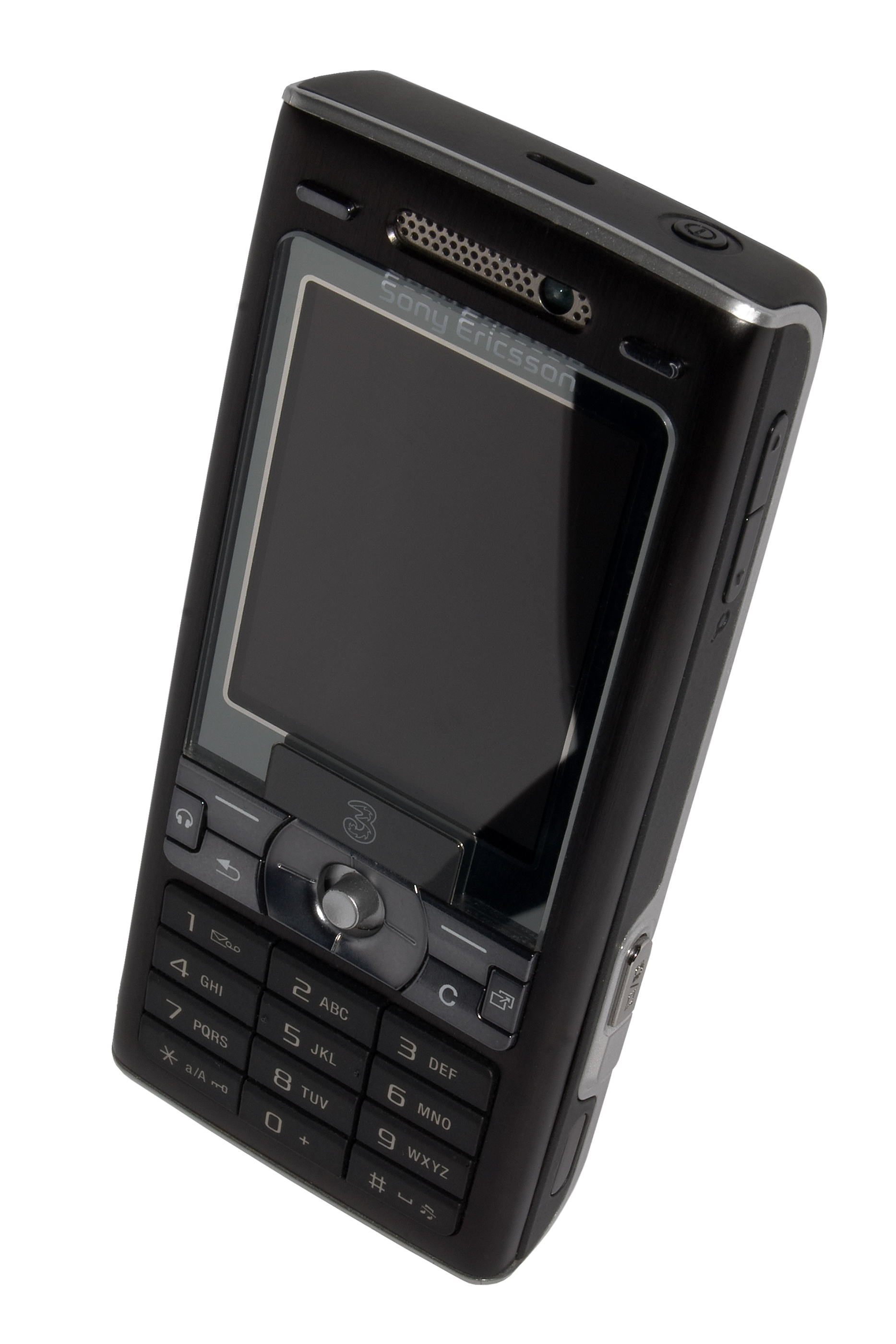 Image of Sony Ericsson K800i.